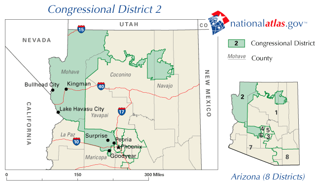 A map of Arizona's 2nd Congressional District, including eastern Arizona and part of upper Central Arizona. Major cities in this district are Bullhead City, Kingman, Lake Havasu City, Surprise, Goodyear, and Peoria.